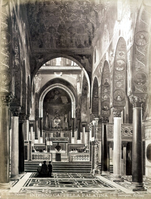 Giuseppe Incorpora (1834-1914) - "Palermo - Inside the Palatine Chapel". Catalogue # 125.